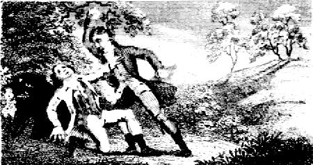 18th century illustration of Eugene Aram murdering Daniel Clarke, from the Newgate Calendar.